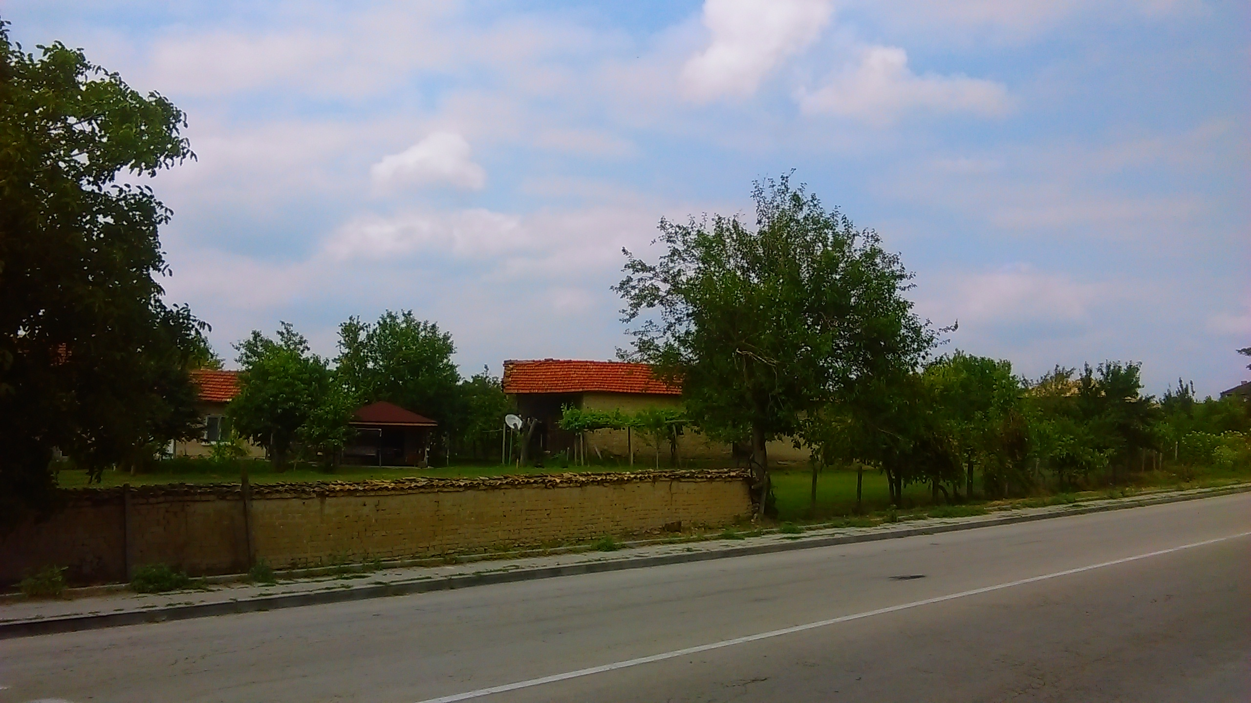 The Varna-Sofia road in Probuda